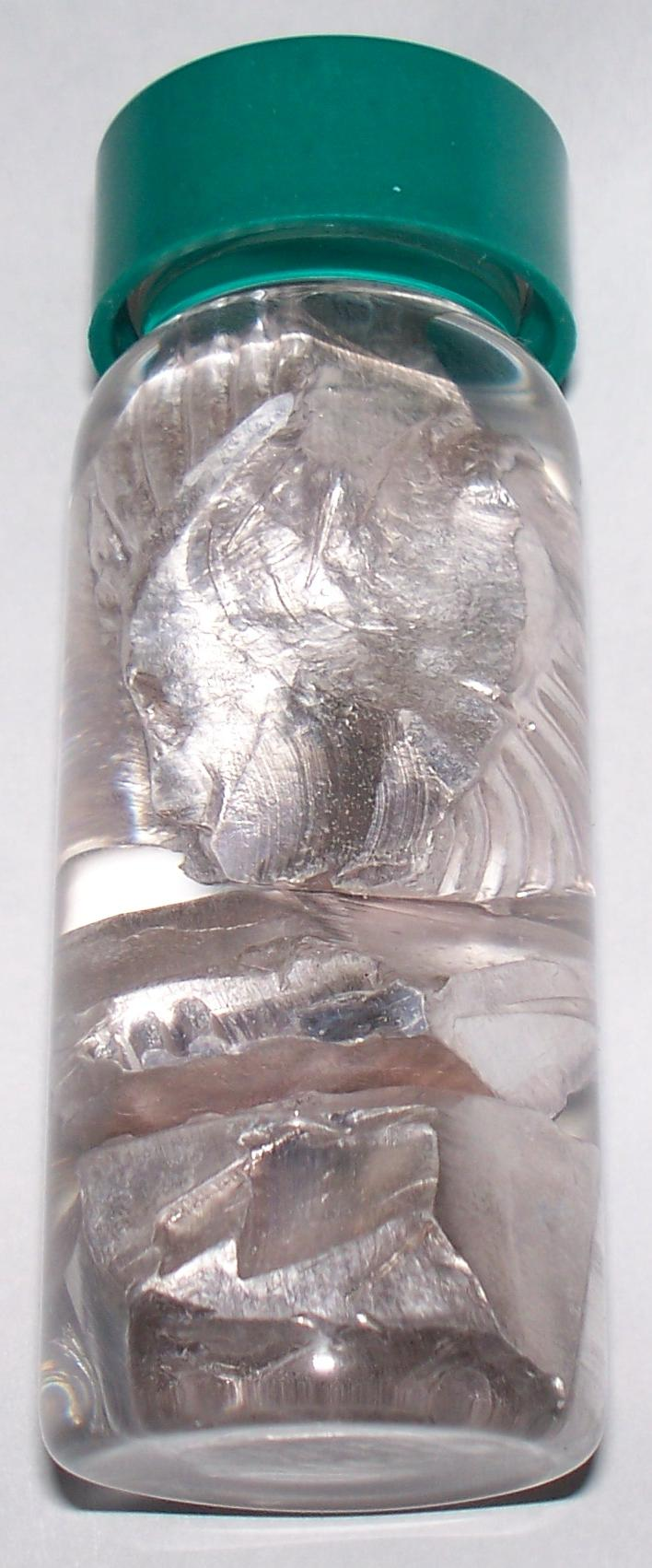 Sodium metal under mineral oil